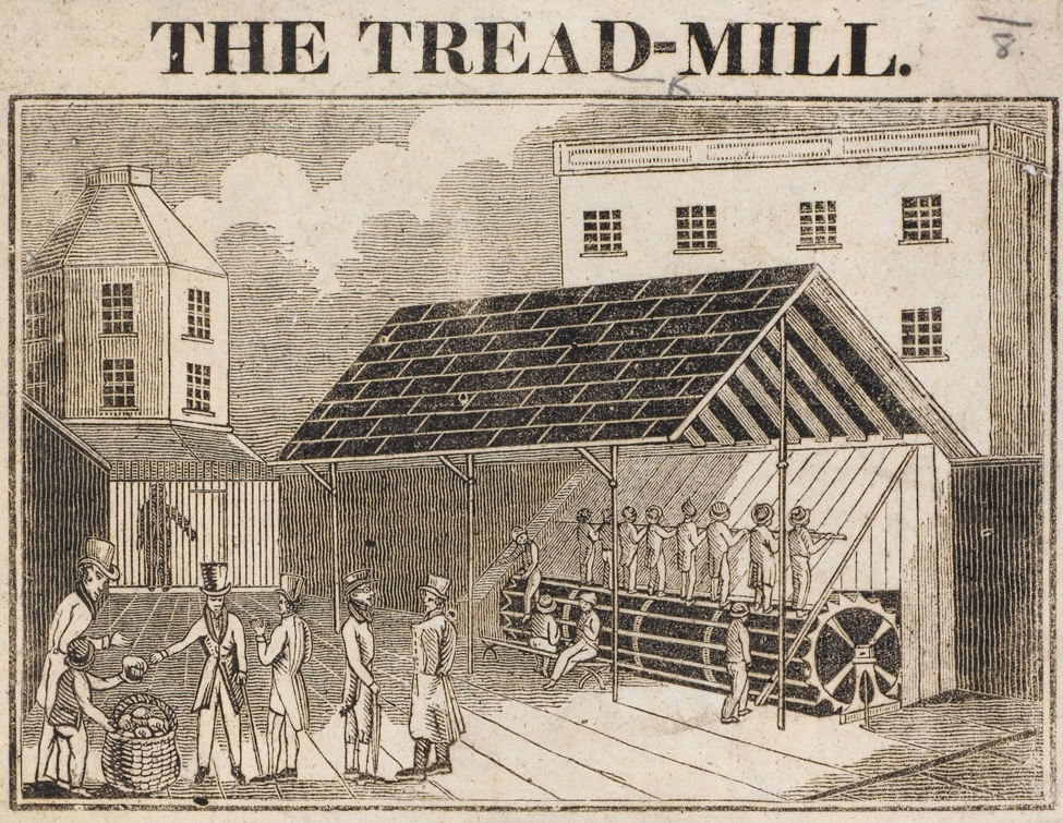 Treadmill at Brixton Prison in London, c1817, British Library. Note: The broadside features an illustration and description of a treadmill at Brixton Prison in London; it shows prisoners serving 'hard labour' engaged in grinding corn. The machine was designed by William Cubitt and was able to accommodate up to 24 prisoners at one time. Each prisoner moved along the tread-wheel from left to right until a new prisoner joined at the far end. When 24 prisoners milled, the rest period was 12 minutes every hour.